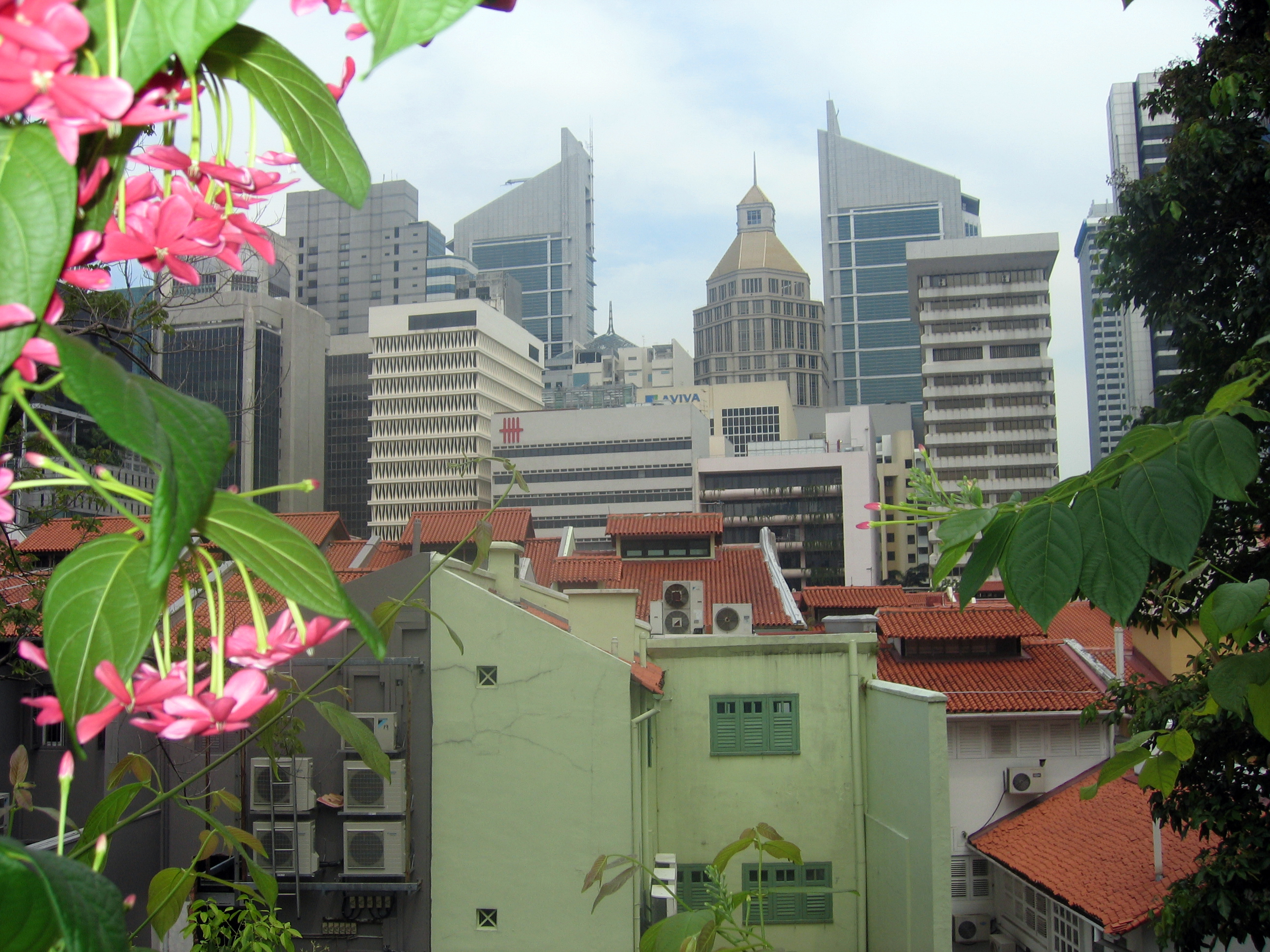 The Singapore skyline from Chinatown.